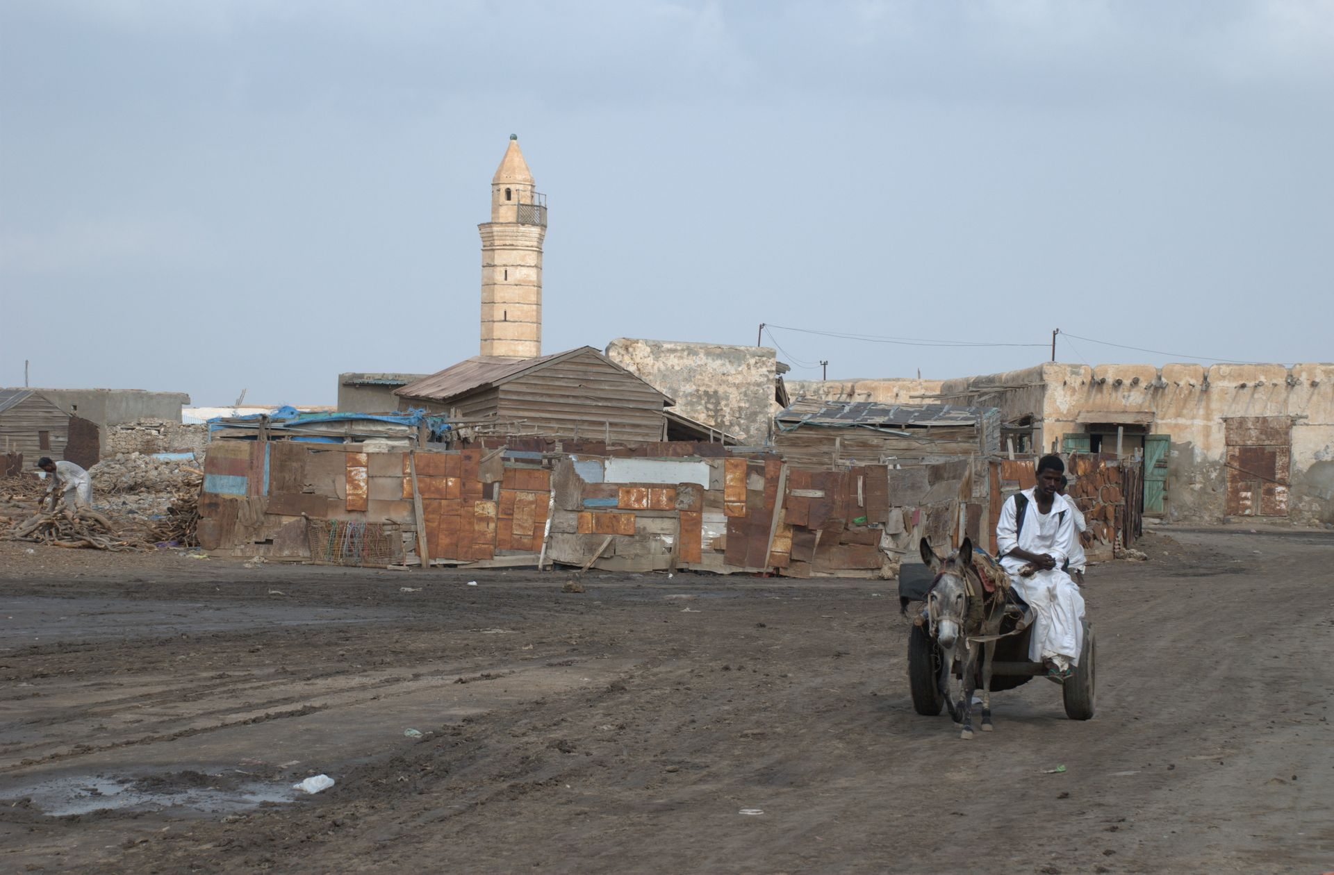 Suakin, Sudan, mainland el-Geyf